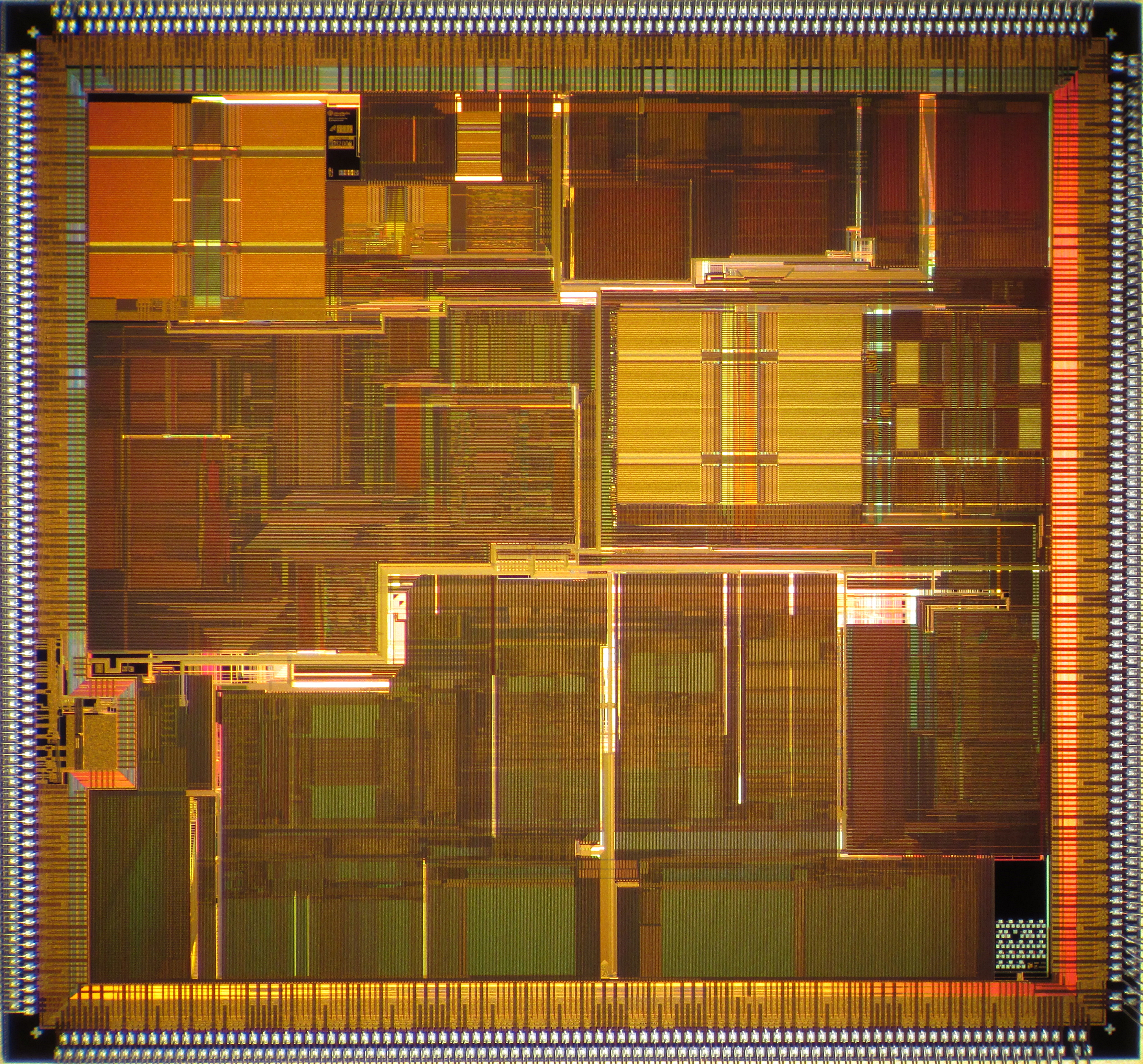 Die shot of NEC VR12000 (D30710RS-300) MIPS microprocessor.